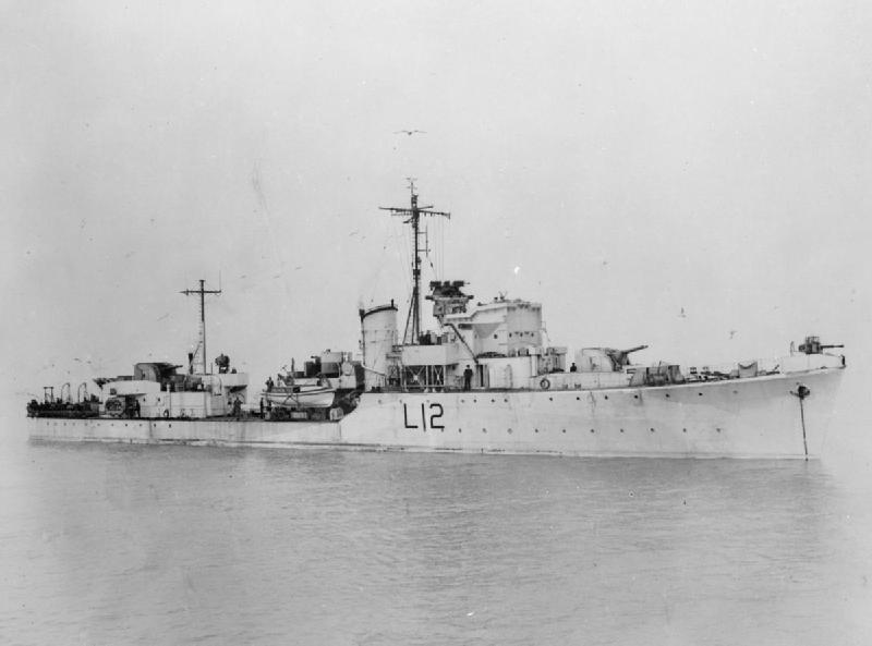 Photograph of British Hunt class destroyer HMS Albrighton.